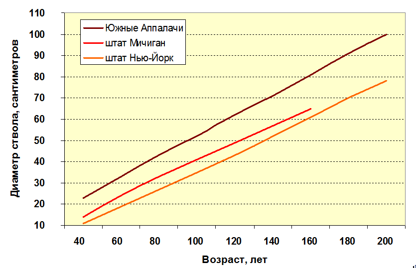 Average dimensions of dominant eastern hemlock trees at selected locations